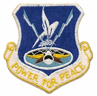 4321st Strategic Wing emblem. A copy of this emblem was downloaded from for use in my book “The Genealogy of the STRATEGIC AIR COMMAND” with the webmasters’ approval.